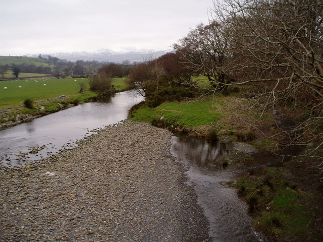 Afon Llafar. The river has nearly reached Bala Lake.